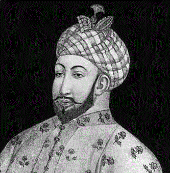 This miniature portrait is mistaken to be of Timur. But historical records are that the portrait is of Emir Mohammad Khwaja the head of Barlas tribe.